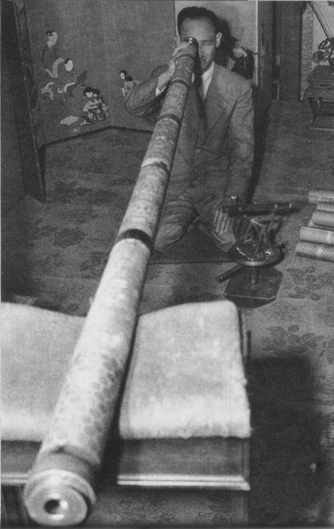 Naoyoshi Ii, great-grandchild of Ii Naosuke.